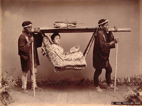 low quality